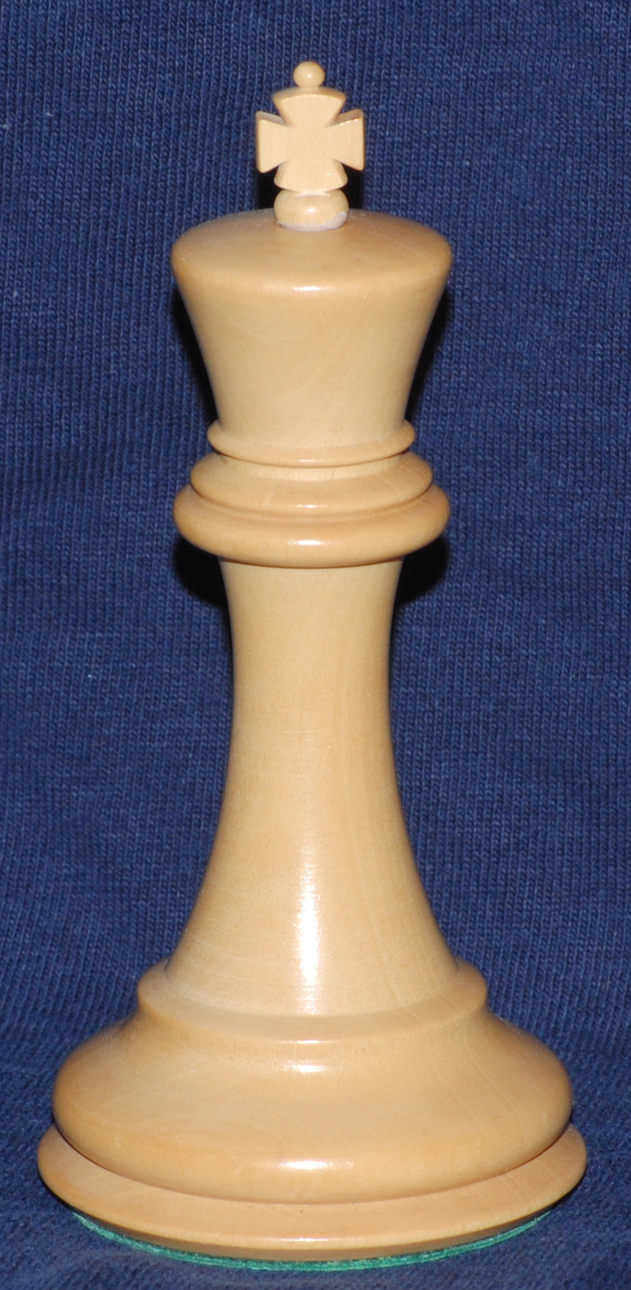 King from my House of Staunton "Marshall" chess set, 4 inches tall